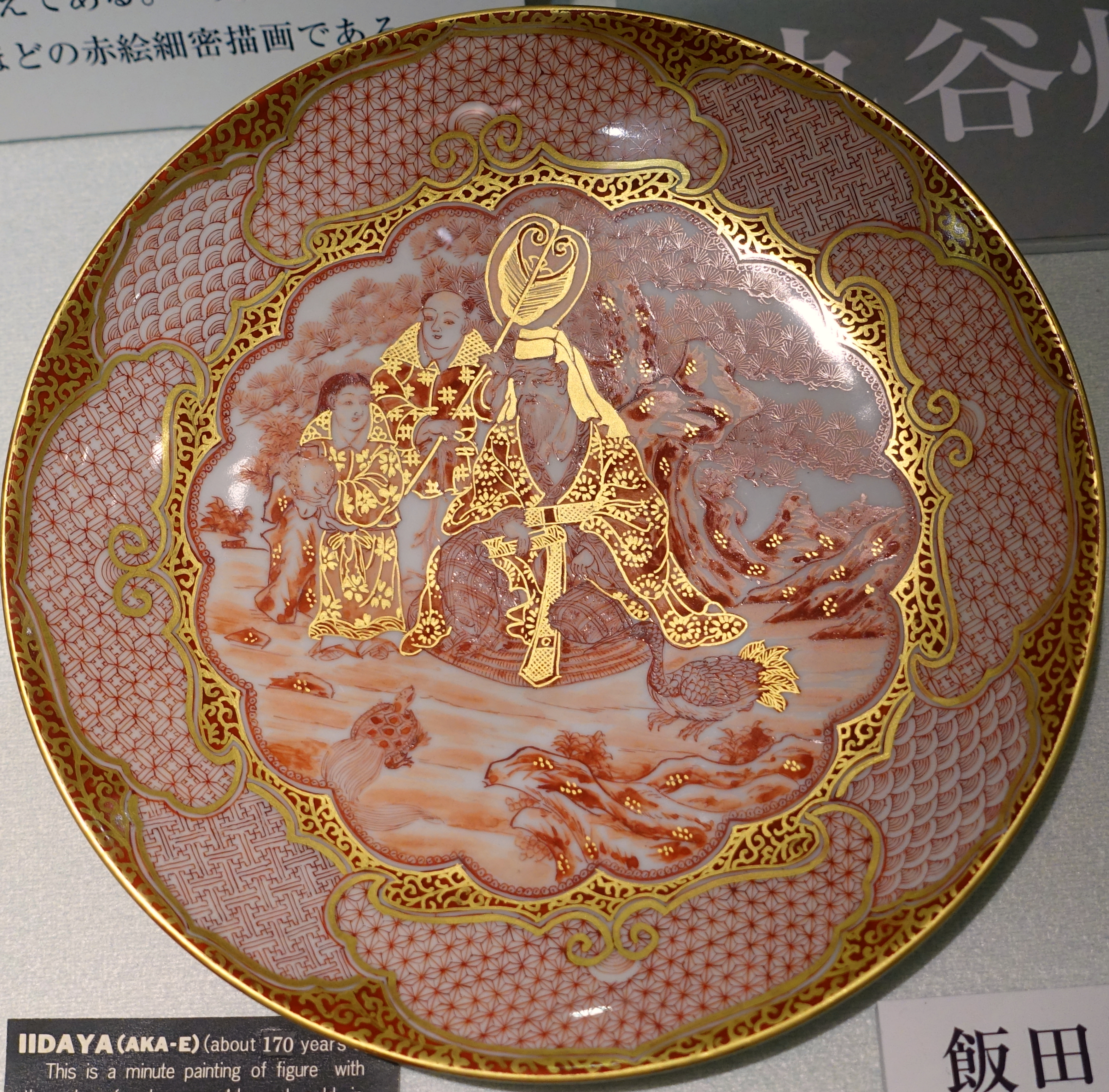 Exhibit in the Ishikawa Prefectural Museum of Traditional Arts and Crafts - Kanazawa, Japan.